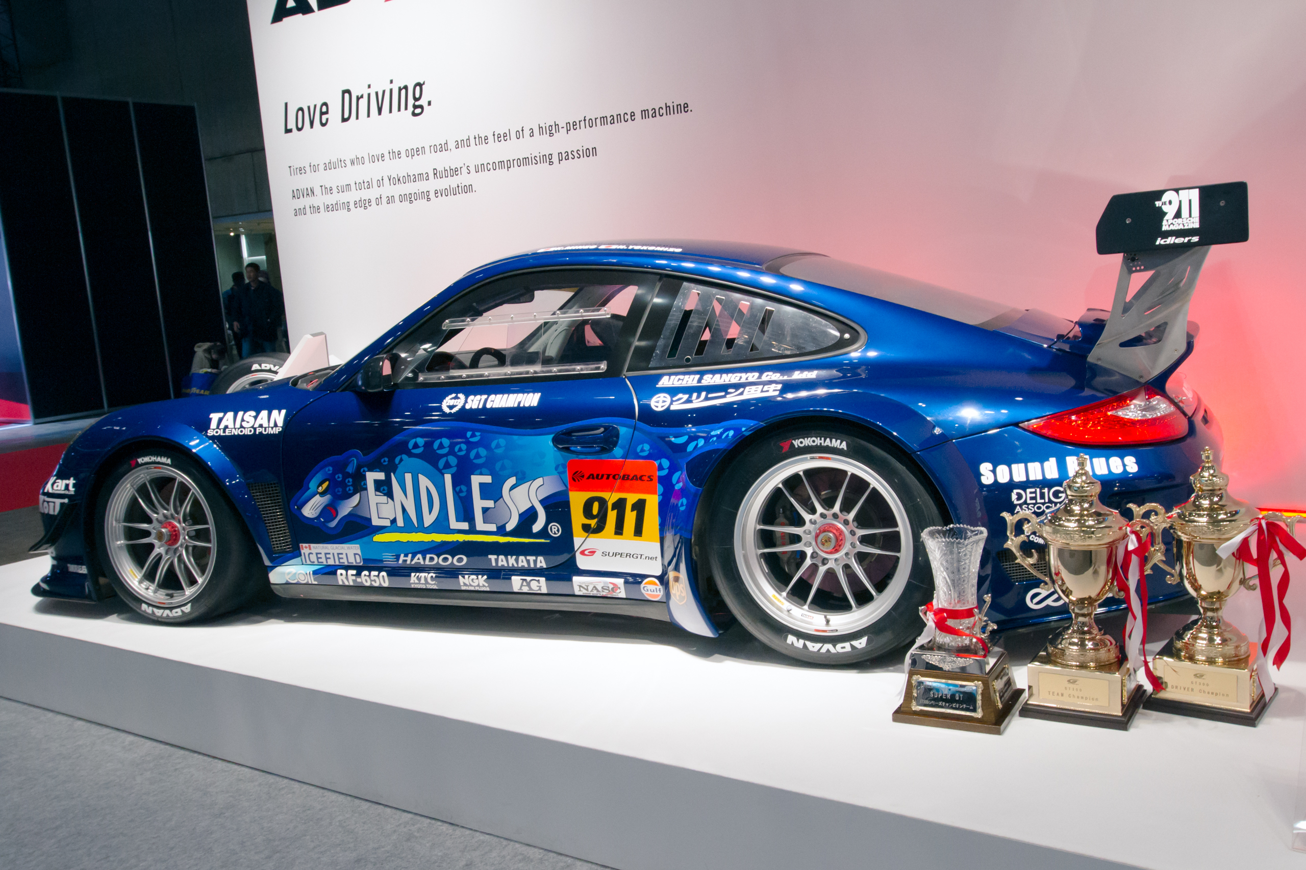 Tokyo Auto Salon 2013: Endless Taisan 911 (Porsche 911 GT3 R of Team TAISAN), the champion car of the 2012 Super GT GT300 class